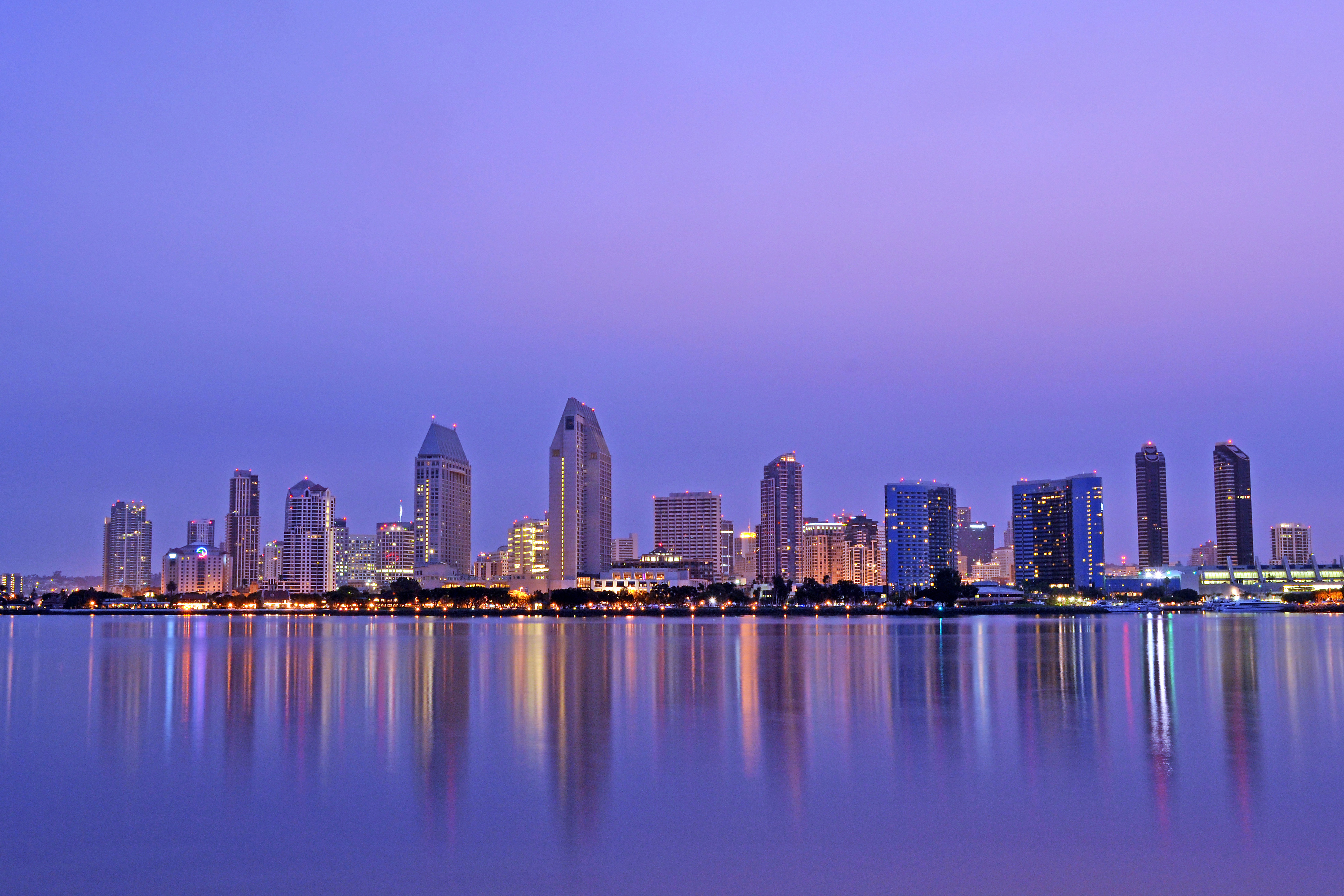 San Diego skyline at dawn as seen from Coronado island